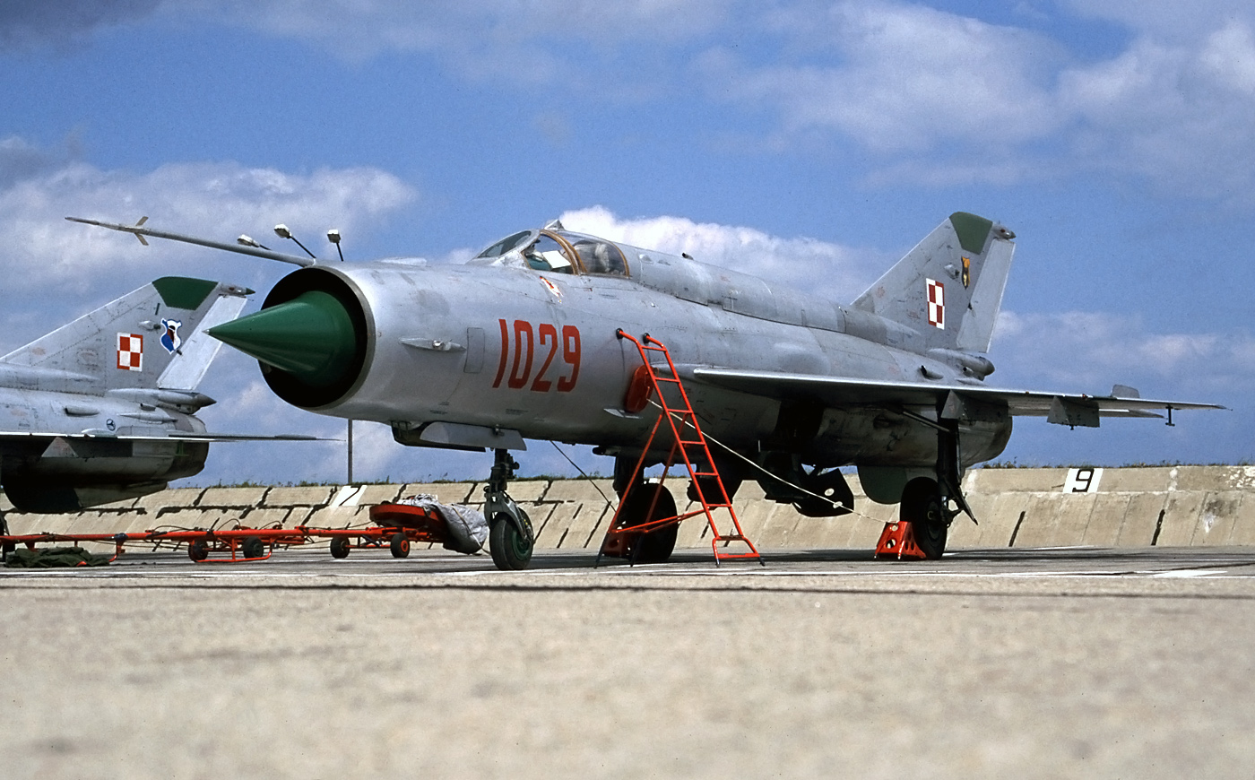 The Polish Nany ruled the skies over the Baltic Sea with a squadron of MiG-21s, flying from Gdynia.